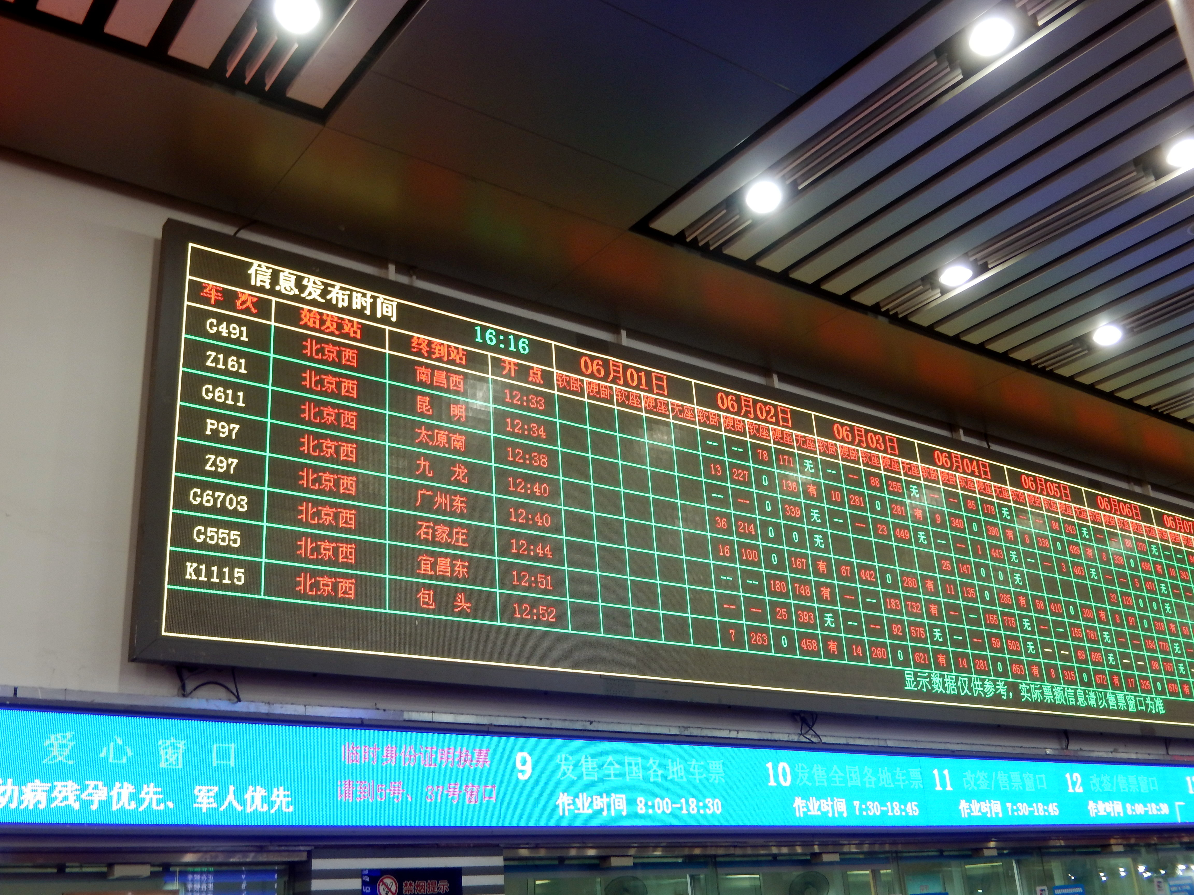 The train availability board in Beijing West Railway Station, showing train number P97 for the train from Beijing West to Kowloon.